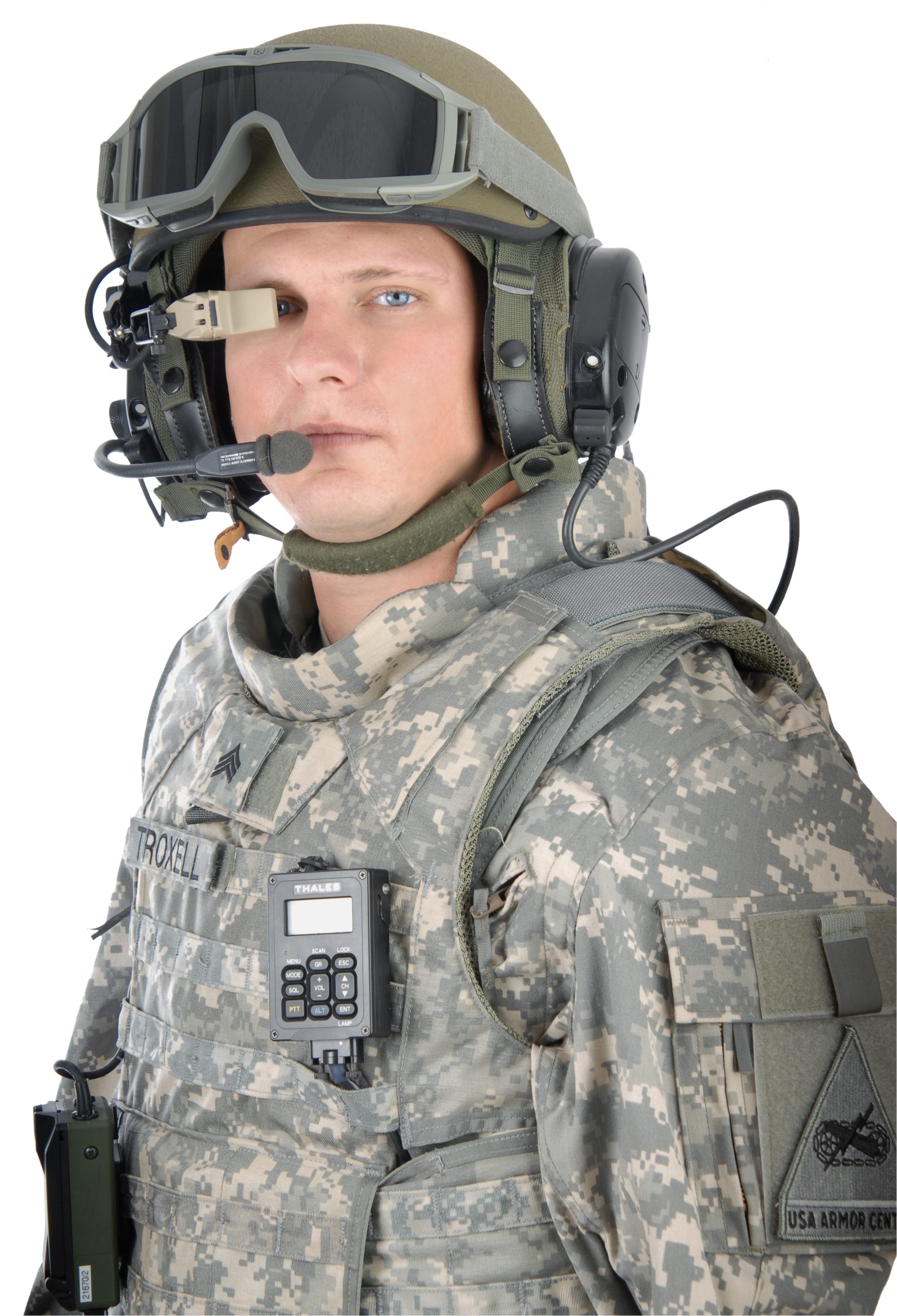 The Mounted Soldier System (MSS) enhances the survivability, situational awareness, lethality, mobility, and sustainability for all combat vehicle crewmen and other Soldiers performing mounted operations.